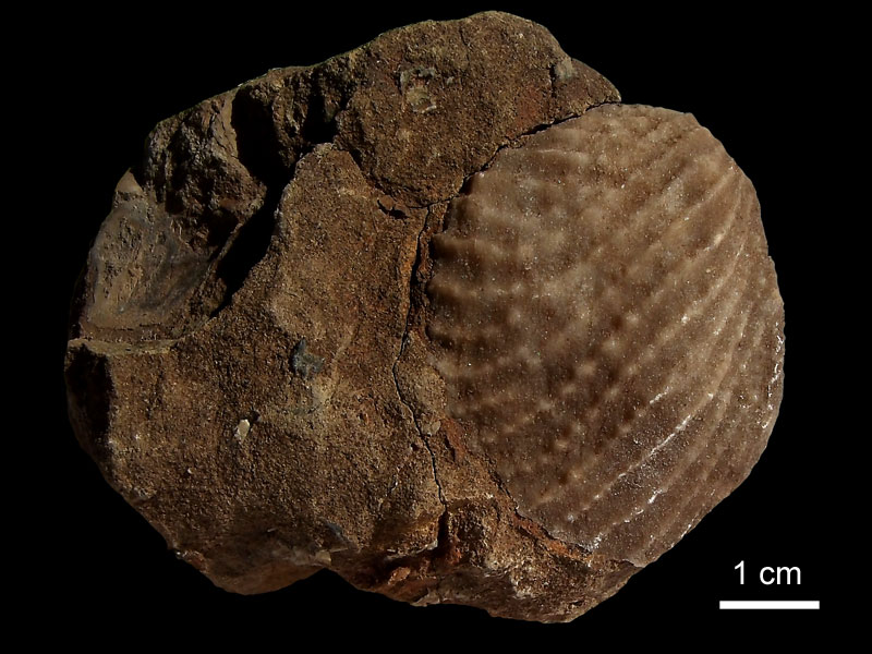 Side view of the trigoniid Myophorella, from the middle Jurassic of Neuquén, Argentina